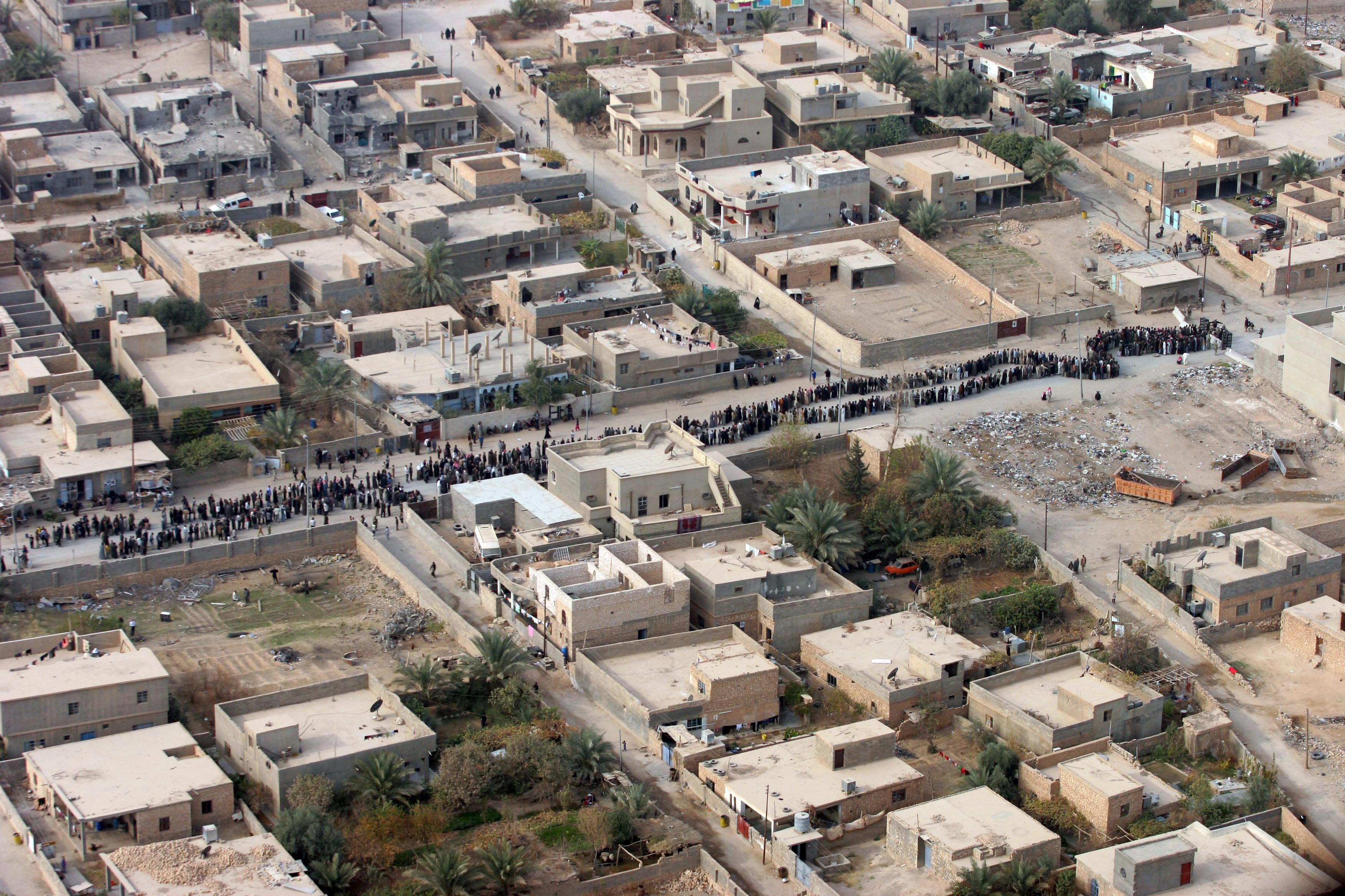 Husaybah, Iraq (Dec. 15, 2005) - Iraqi citizens wait in line at a polling site in the city of Husaybah, Iraq to vote during the country’s first parliamentary election. Iraqi citizens elected their first permanent parliamentary government, which will lead the new democracy for the next four years. U.S. Marine Corps photo by Lance Cpl. Sheila M. Brooks (RELEASED)